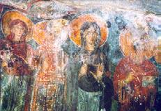 The cave church Ascension of Christ in Višni, Macedonia. Frescos of St. Marina, st. Nedela, st. Tekla and st. Cosmoa